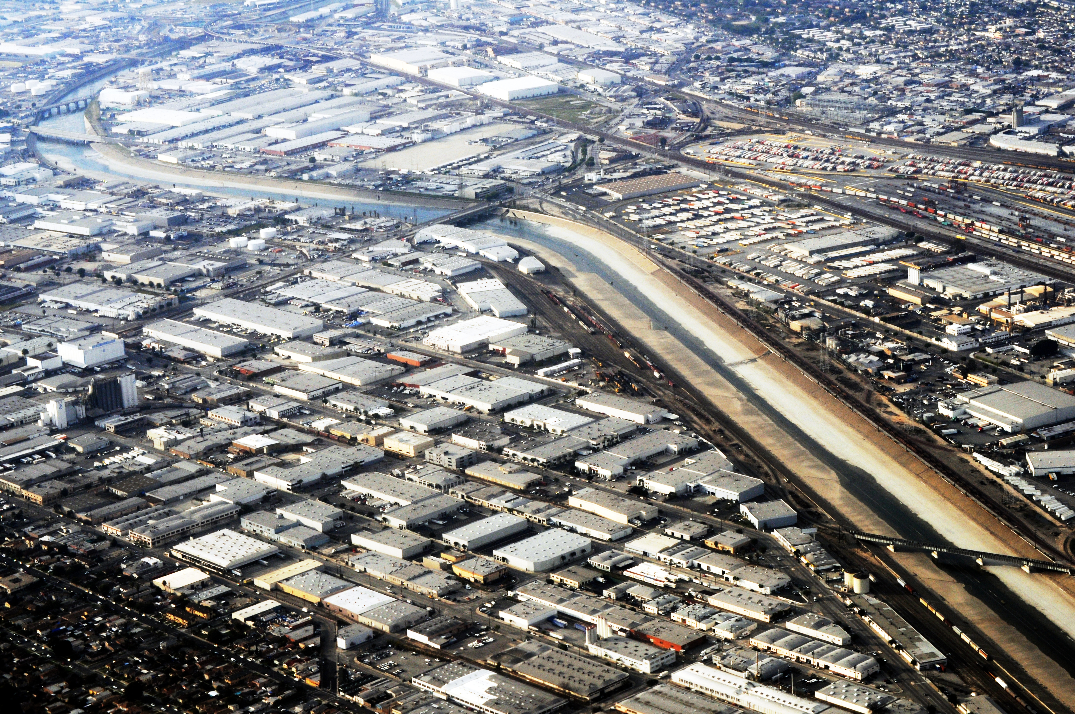 Aerial photo of the Los Angeles River.